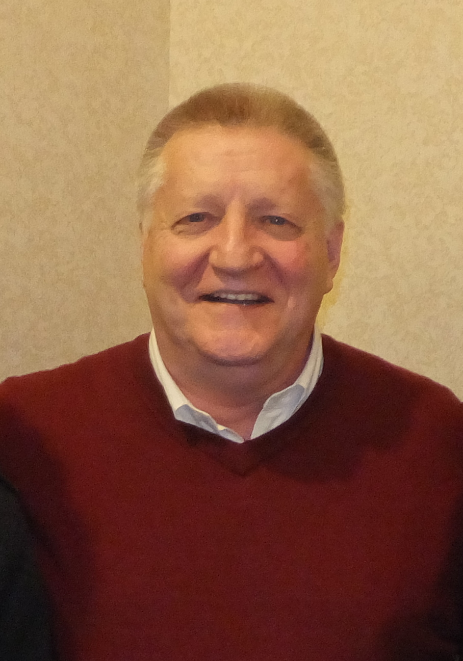 Larry Kenney at Mike Carbo's New York Comic Book Marketplace at the New Yorker Hotel in NYC, March 1, 2014.